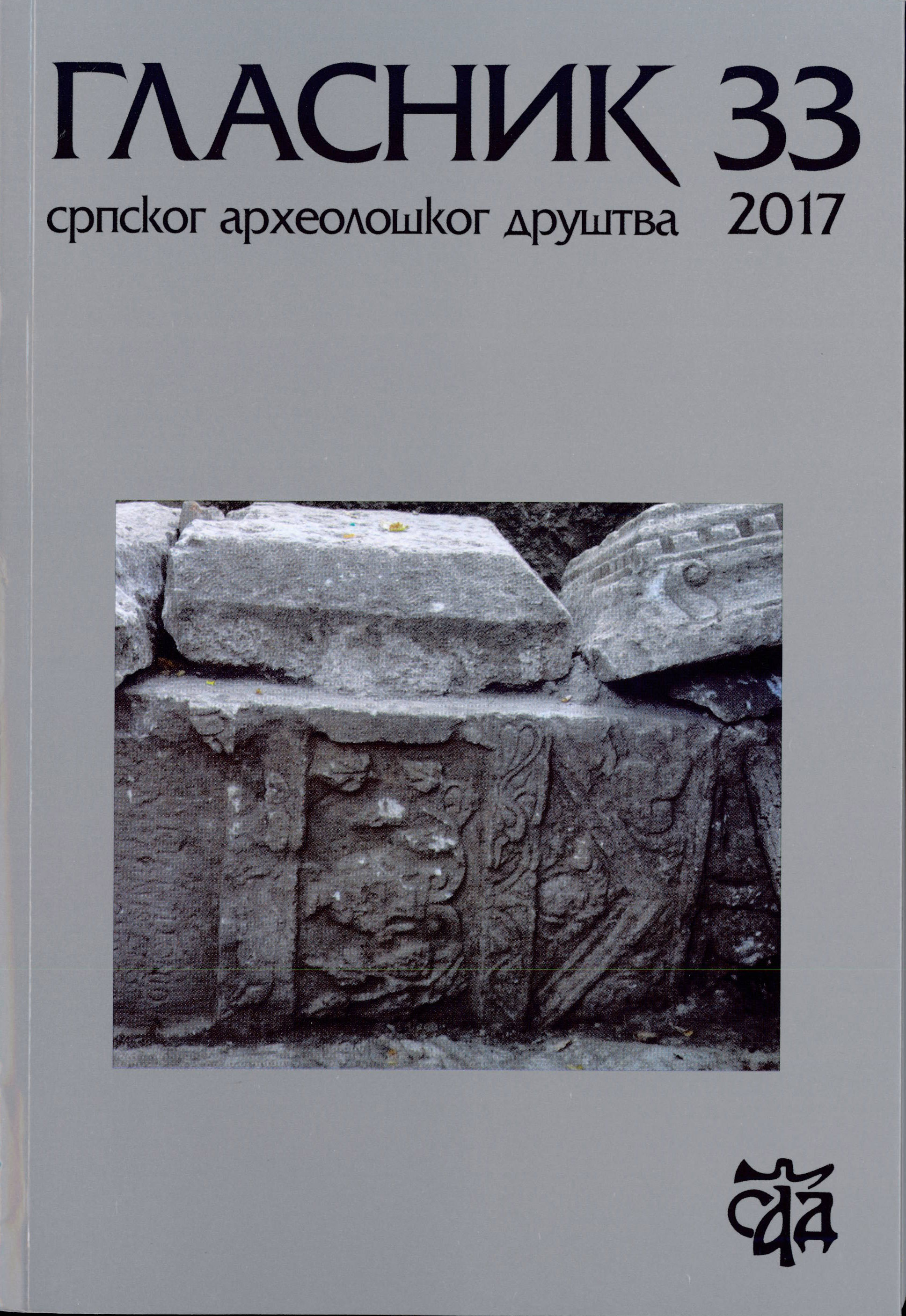 Cover of Serbian scientific journal Glasnik Srpskog arheološkog društva, 2017.